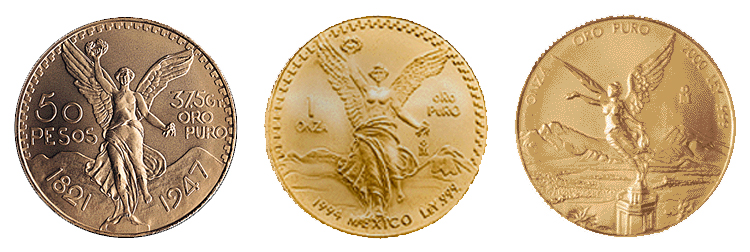 Reverse of Centenario and liberty mexican coins